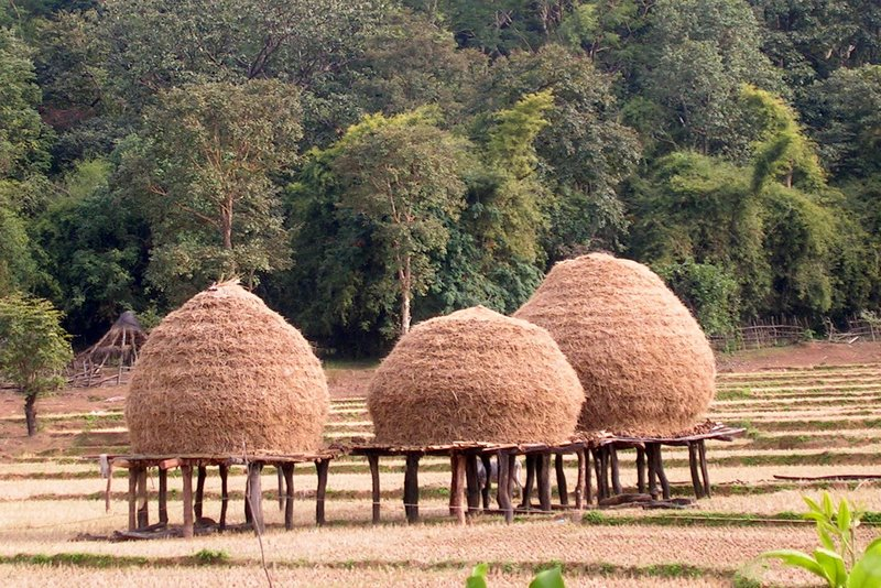 Haystacks in Dandeli, India